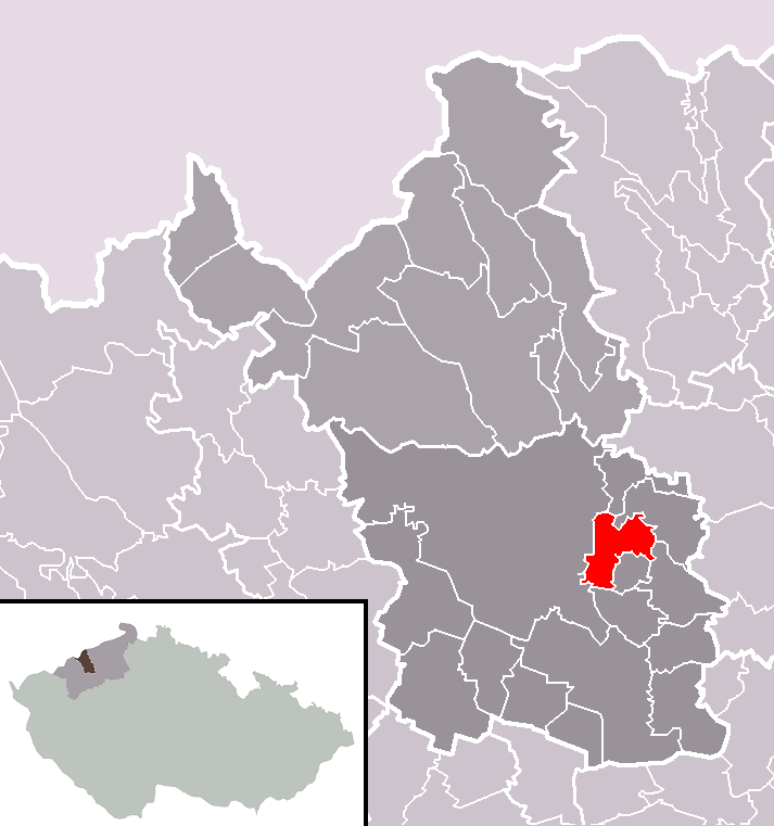 Location of Obrnice municipality within Most District and administrative area of Most as a Municipality with Extended Competence.